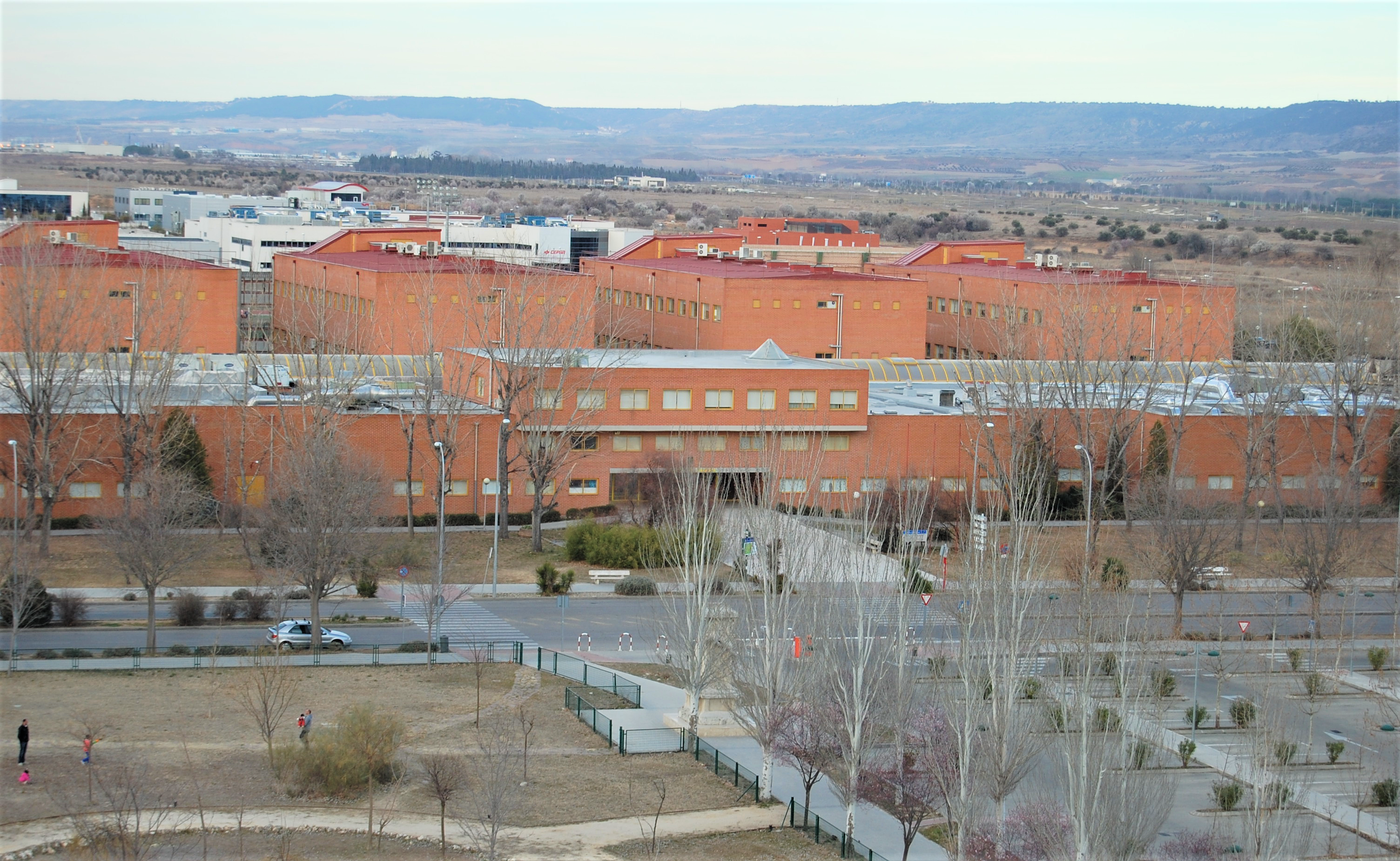 View of Medical School in Alcalá de Henares (Community of Madrid-Spain).